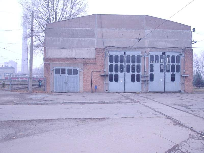 Depot next to Maidan Pratsi metro station, Kryvyi Rih Metrotram